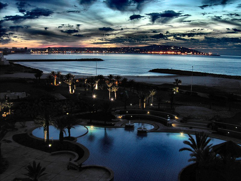 Tangier is a Moroccan port city located near the Strait of Gibraltar. Originally an ancient Phoenician trading post, and later became a Carthaginian and then a Roman settlement. After five centuries of Roman rule, it was captured successively by the Vandals, Byzantines, and Arabs. At the cross-roads of Europe and Africa, of the Atlantic and the Mediterranean, Tangier opens the door onto Morocco. There is still an air of mystery about the city, going back to the time when Tangier was an international zone. Since Tingis was founded in the IVth century BC, Carthaginians, Romans, Phoenicians, Vandals, Arabs, Spaniards, Portuguese and the English have jealously fought for the right to control it. No African city is closer to Europe, no other Orient is more dearly loved by European or American artists - painters, musicians or authors. Delacroix, Saint-Sains, Matisse, Van Dongen, Tenesse Williams, Jean Genet, Joseph Kessel, William Burroughs and Paul Bowles, to name but a few, have all lived in Tangier.